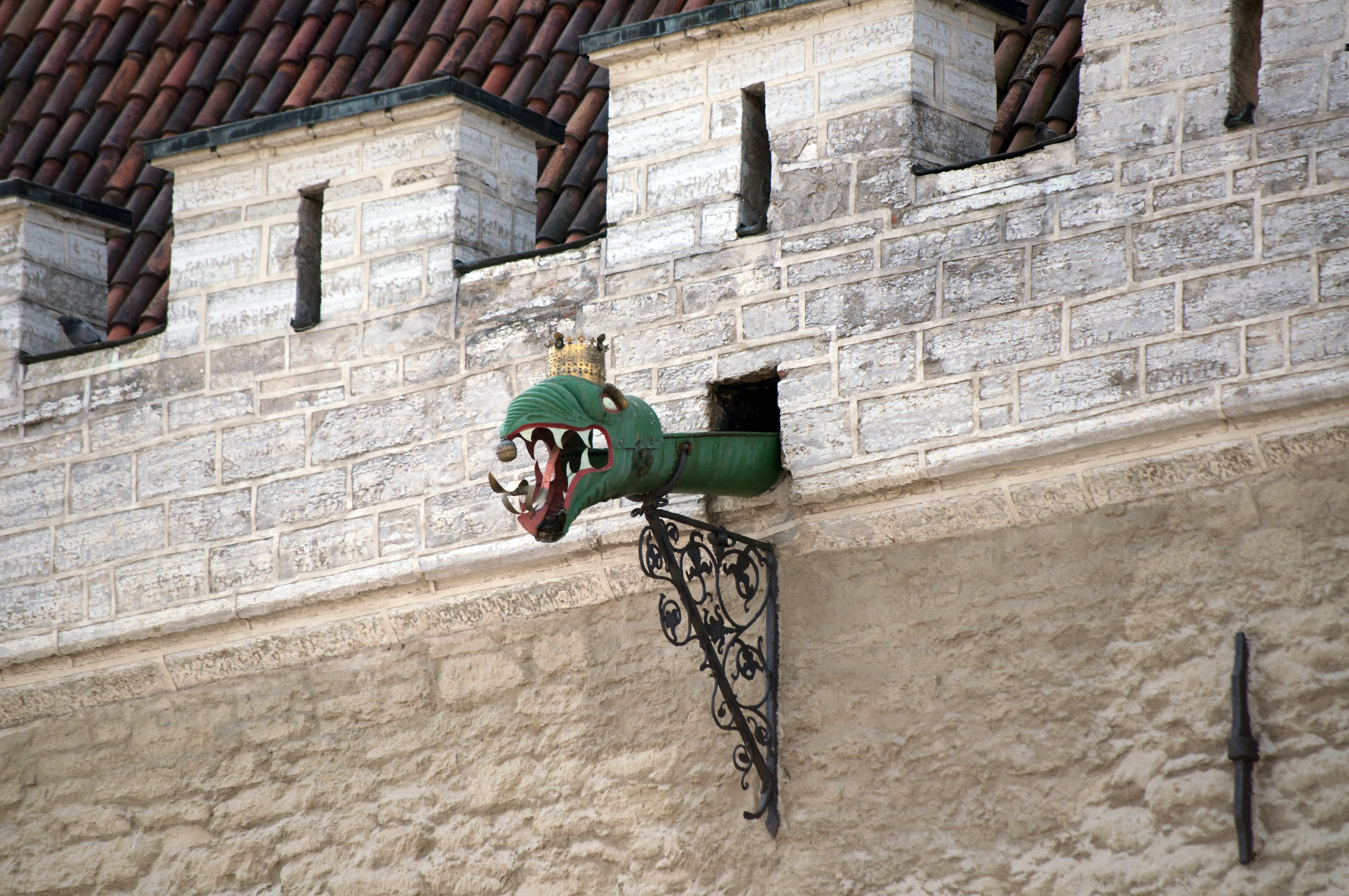 Dragon